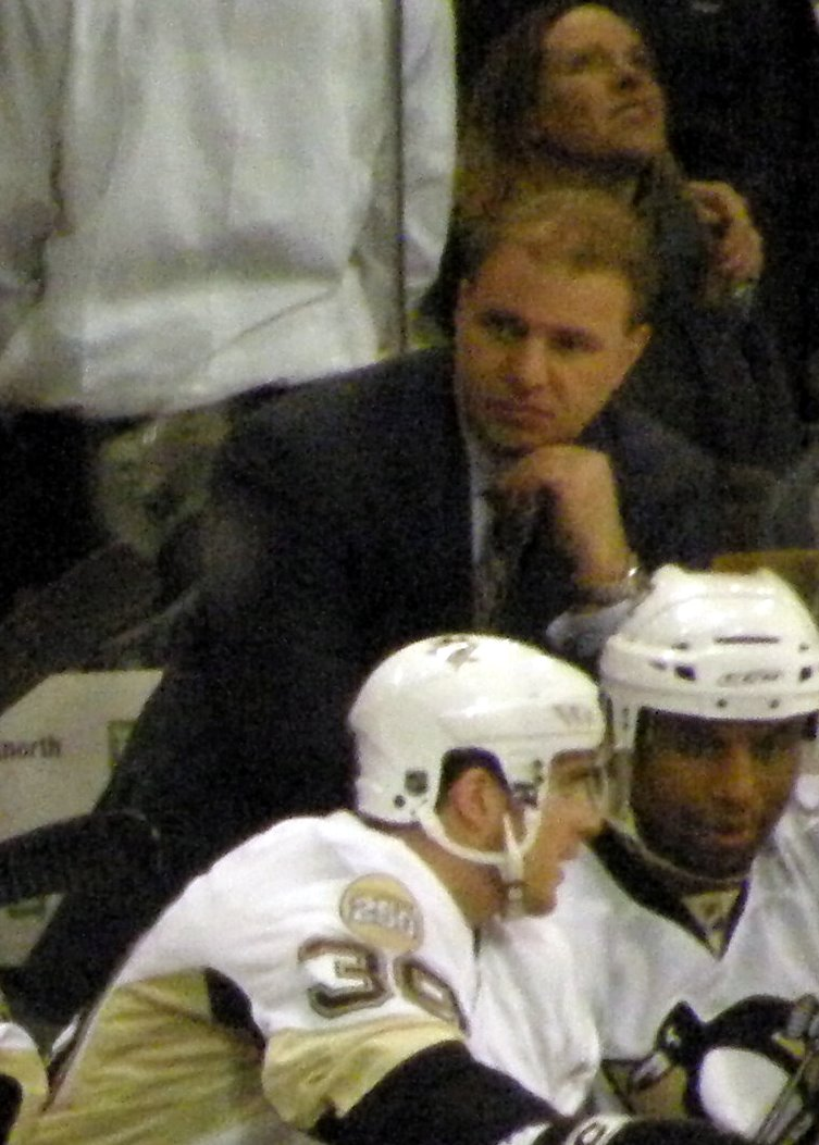 Michel Therrien, Penguins Head Coach. (39 Chris Minard and 27 Georges Laraque in front)